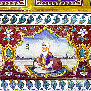 Guru Amar Das Sahib Ji (5 May 1479 – 1 September 1574) was the third Guru of the eleven Sikh Gurus, the eleventh being the living Guru, Guru Granth Sahib.